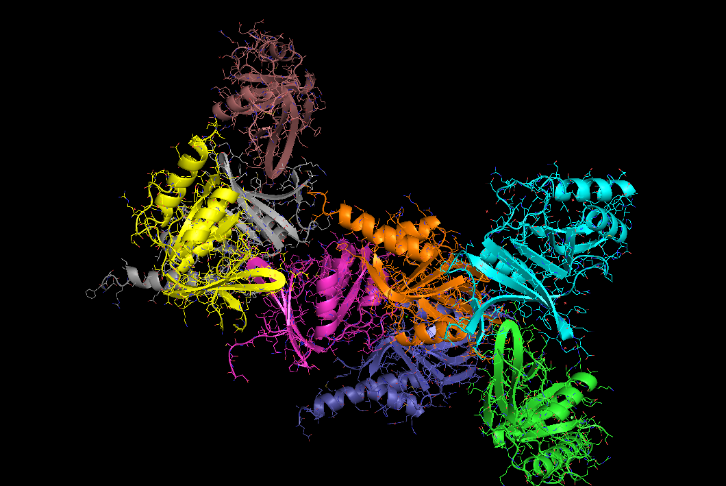 PyMOL cartoon representation of the Crystal structure (monoclinic) of the mouse CCT gamma apical domain.